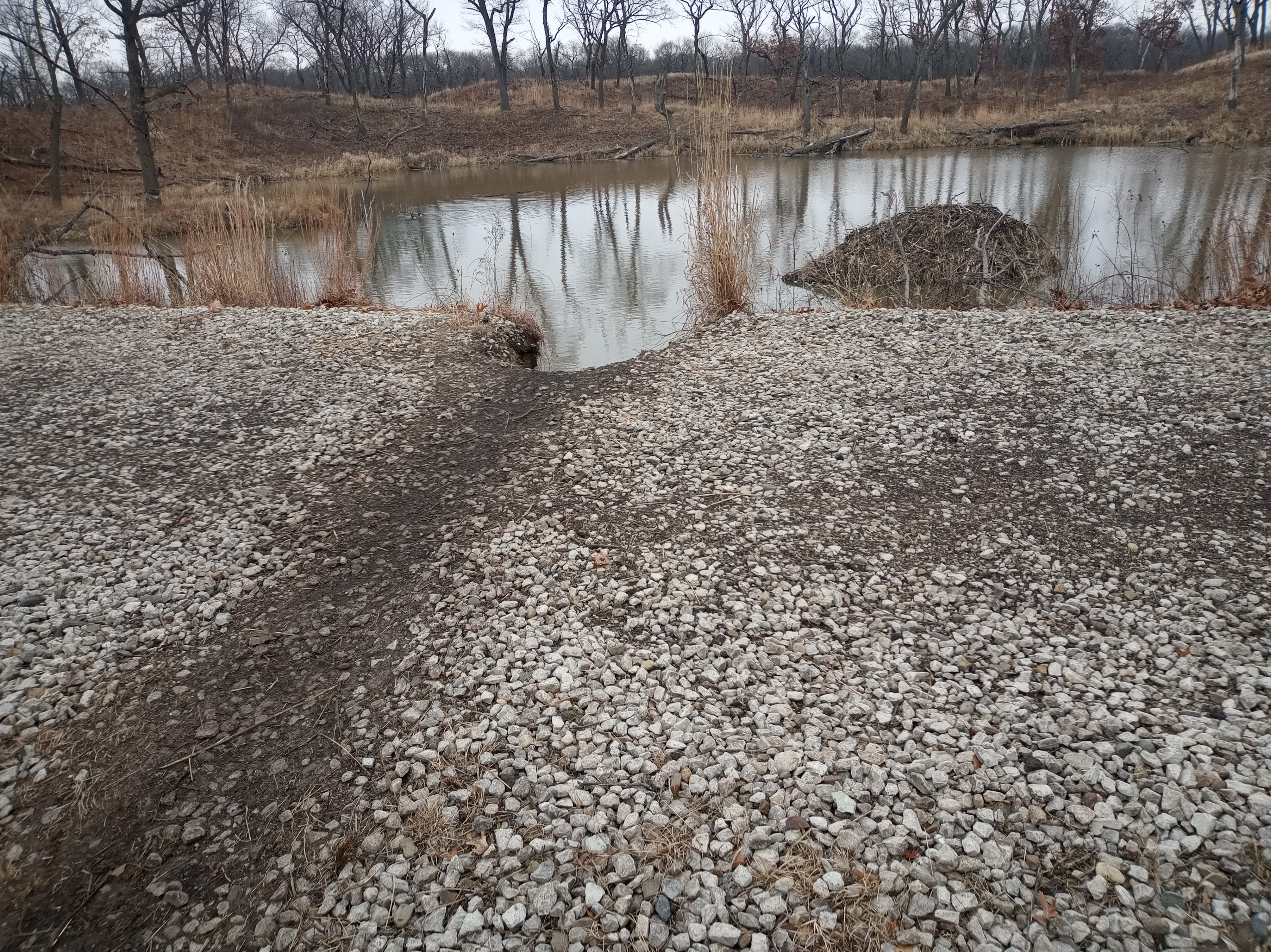 A trail used by members of the local Castor canadensis community to commute from one side of a former railroad embankment to the other. On the former Elgin Joliet & Eastern right of way in Miller Woods in the Indiana Dunes National Park.